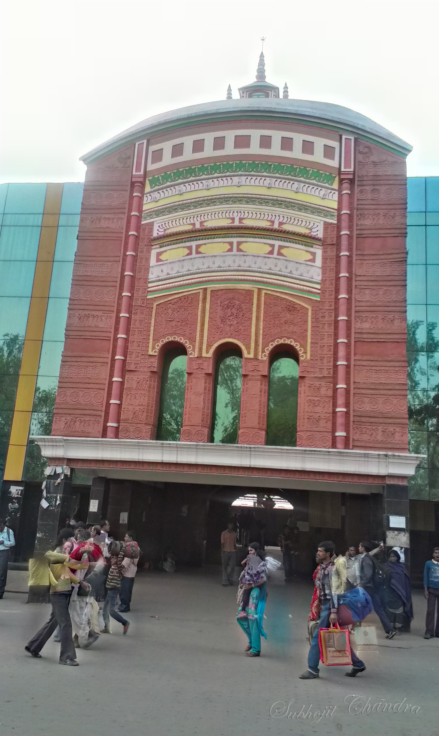 The station resembles Maa Tara temple at Tarapith